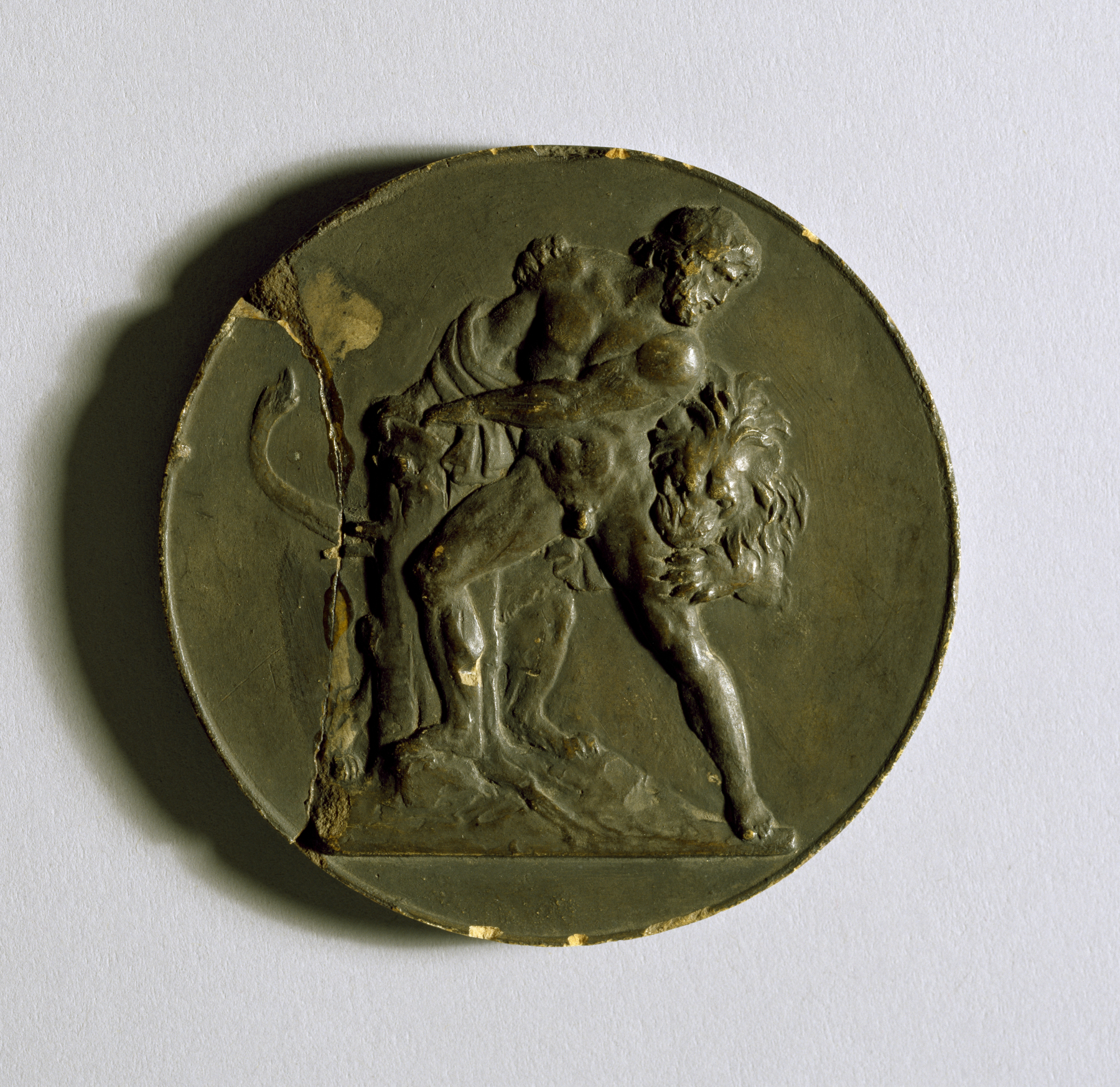 This circular relief has been broken and repaired. It is in a wooden frame, and is a plaster proof of the relief made by Barye in 1819 for the competition at the Ecole des Beaux Arts for the Prix de Rome.